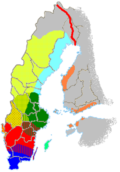 Map showing North Germanic classical dialects in Sweden, Finland and the Baltic